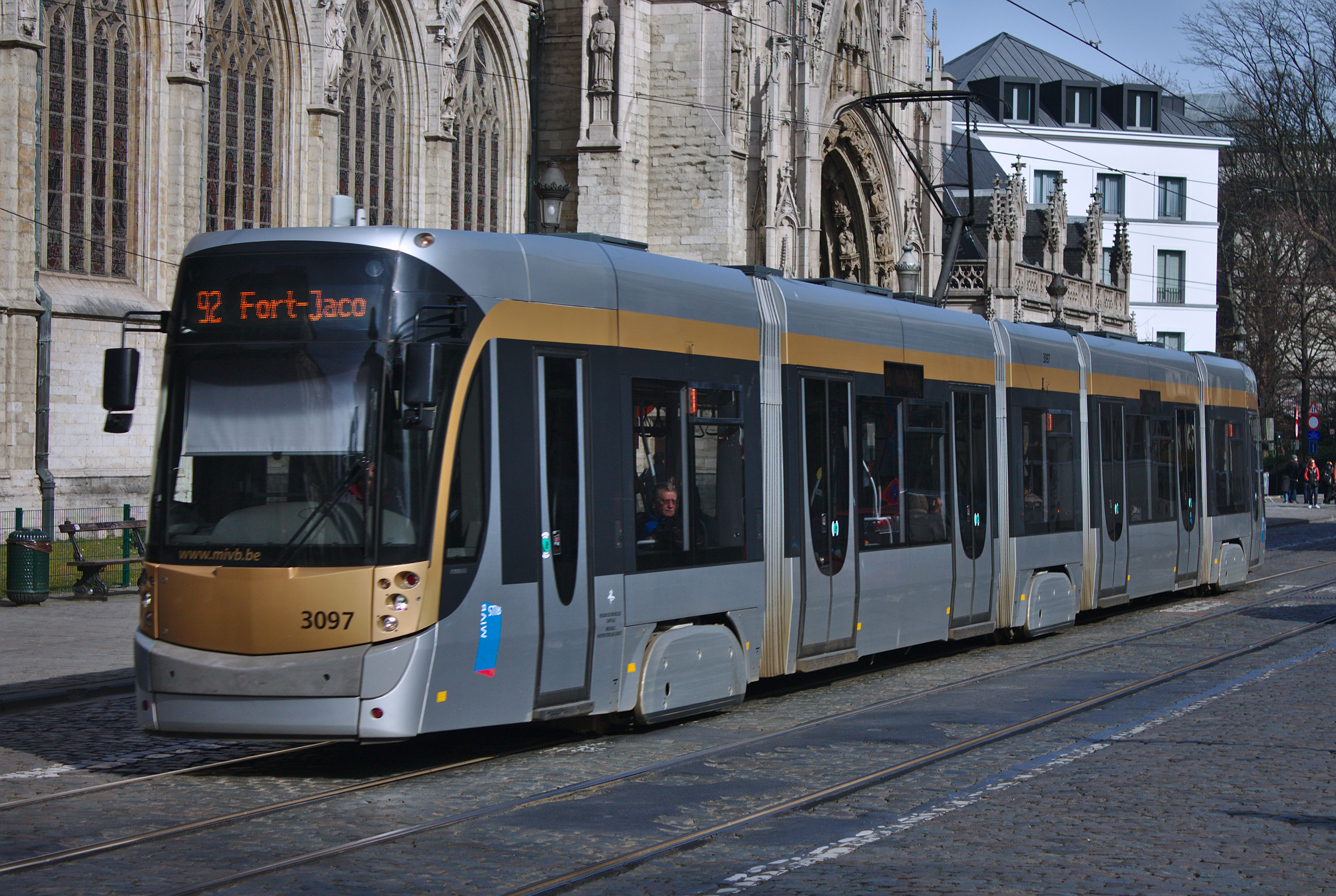 Tramcar #3067 of the Brussels transport board STIB, a five-section Bombardier Cityrunner T3000, on route 92 (Schaarbeek station → Fort-Jaco) in front of the church Notre-Dame du Grand Sablon.